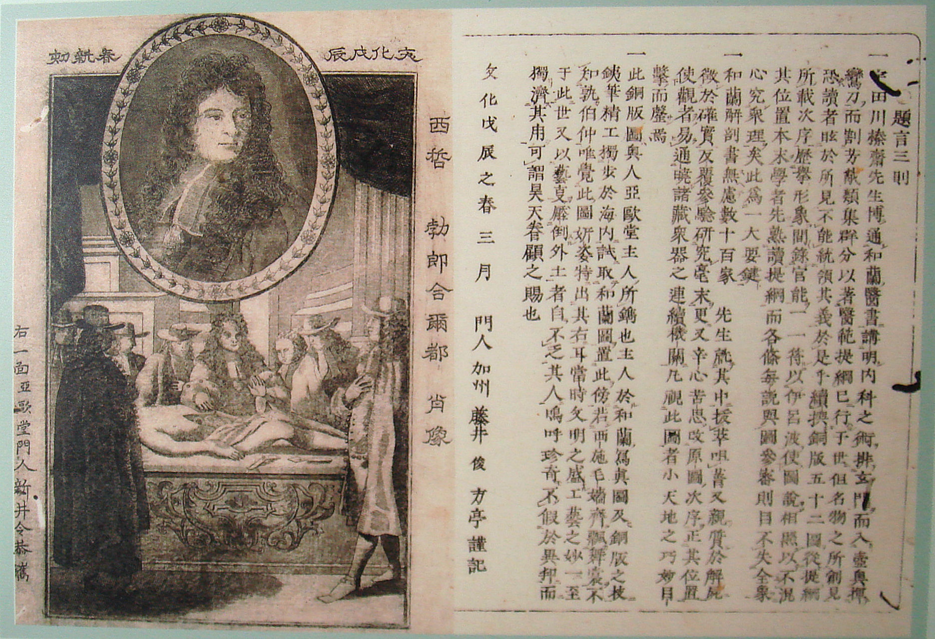 Ihan teikō (医範提綱, "Concise Model of Medicine"). Translated and published by Udagawa Genshin (1769-1824) in 1808. The frontispice shows the Dutch anatomist Steven Blankaart (1650-1704) performing a dissection combined with a seperate portrait.